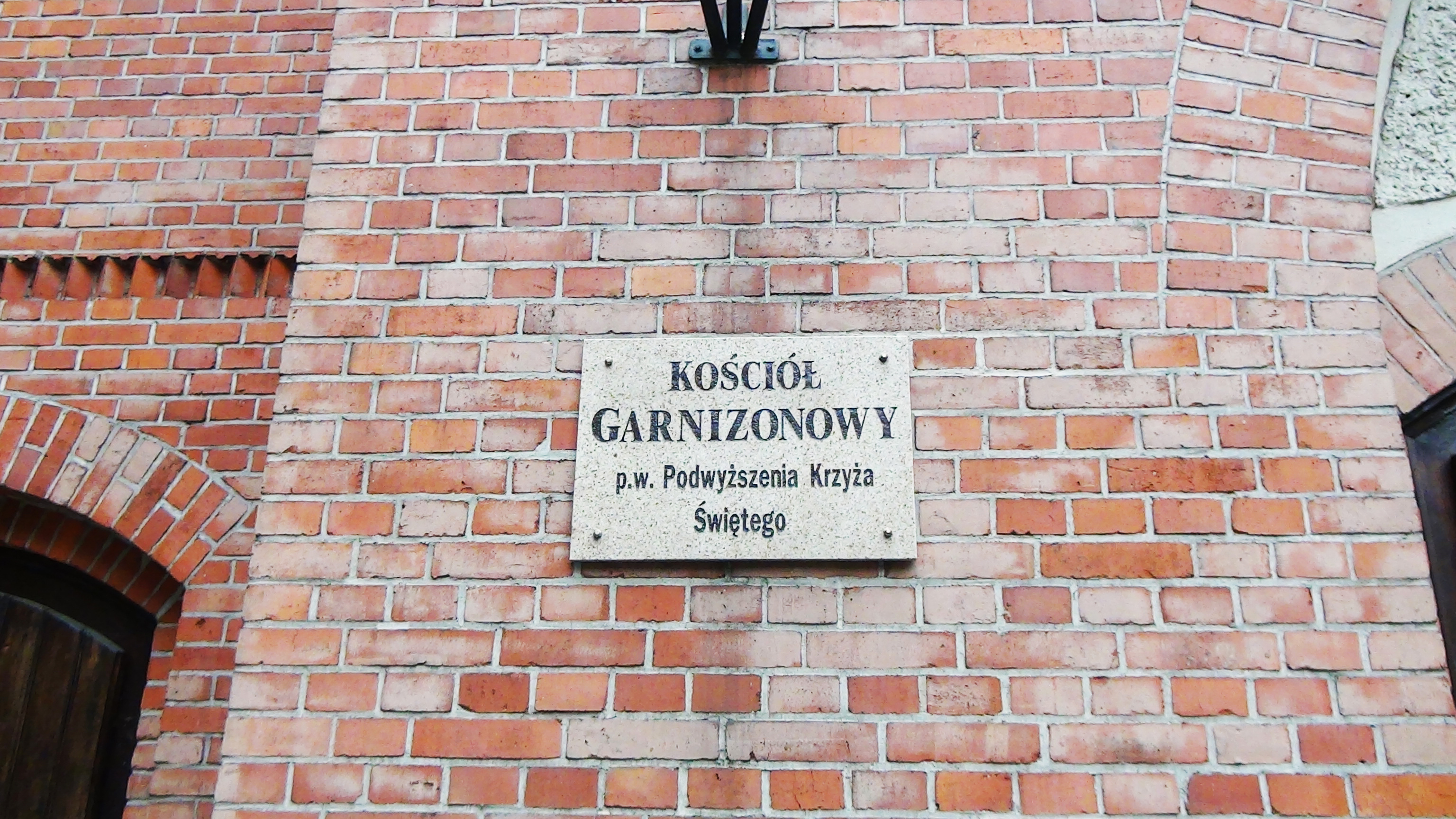 Garrison church of the Exaltation of the Holy Cross in Poznań, Poland - a plaque on the southern facade